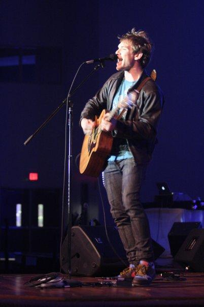 Rick Seibold performing in North Carolina in 2005